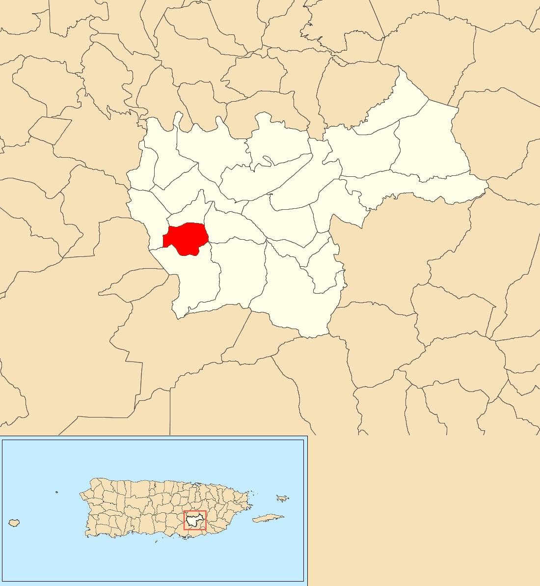 Lapa, Cayey, Puerto Rico locator map